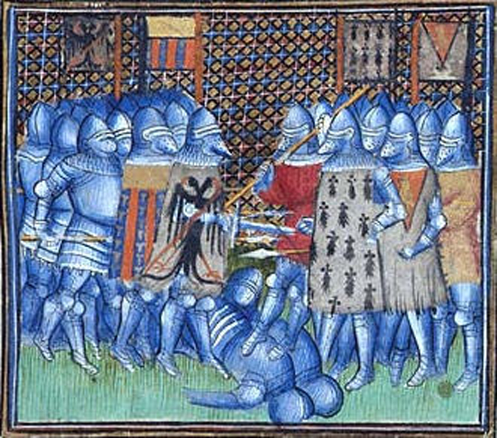 Battle of Auray 1364